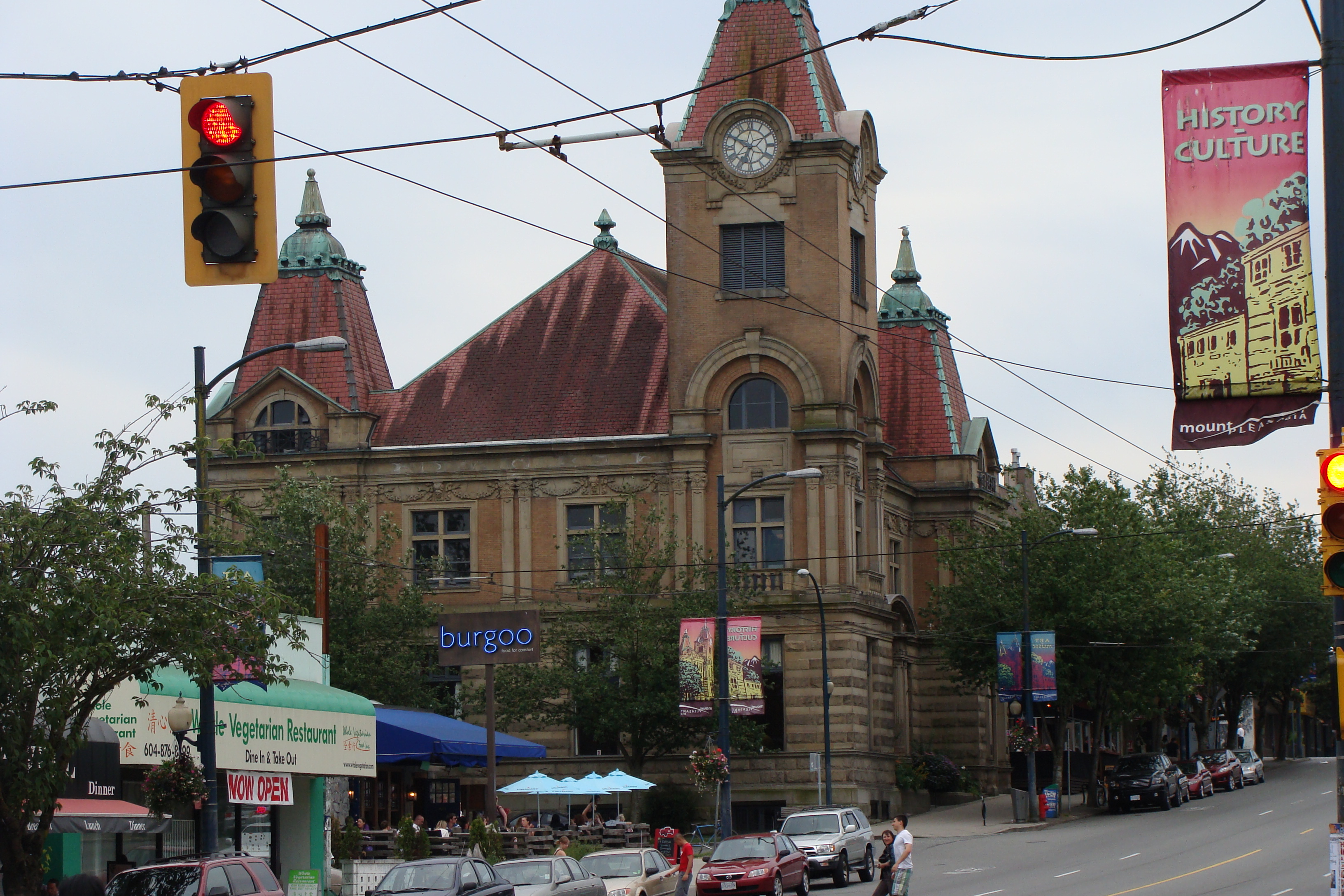 Heritage Hall